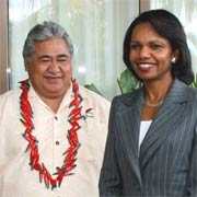 Samoa Prime Minister Tuilaepa Aiono Sailele Malielegaoi with U.S. Secretary of State Condoleezza Rice. Rice was only the second sitting US Secretary of State to visit Samoa.